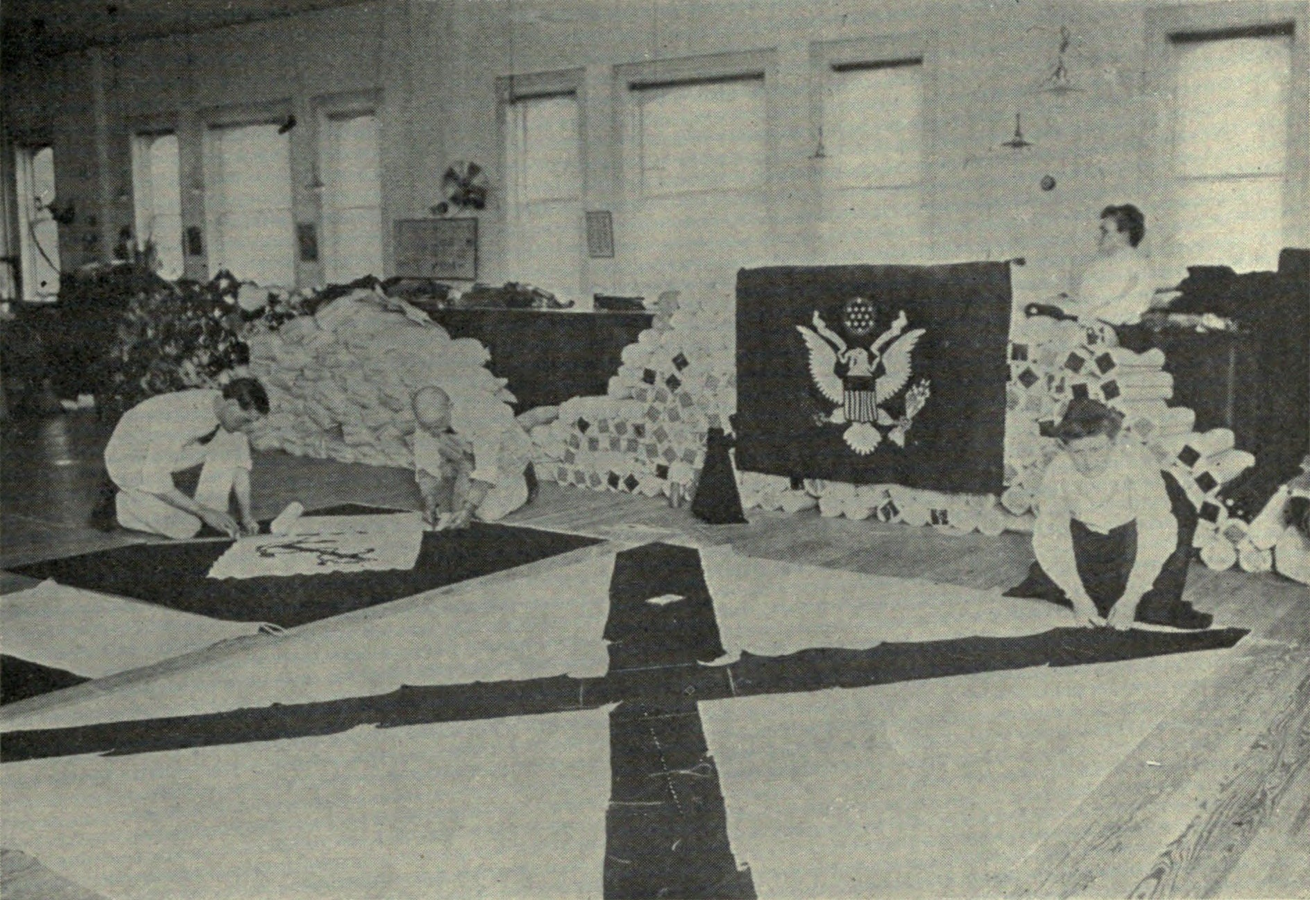 Flagmakers making naval flags in the New York Navy Yard in 1914. The flag in the background is a presidential flag of the time, which took a full month to make. This appears to be the design introduced in 1902, featuring the Great Seal of the United States but with stars surrounded by a "sunburst" of rays in the crest, and no clouds. The presidential flag would change again in 1916. The original caption read Measuring and stitching flags on the floor. The President's flag in the background requires the longest time of all flags to make.